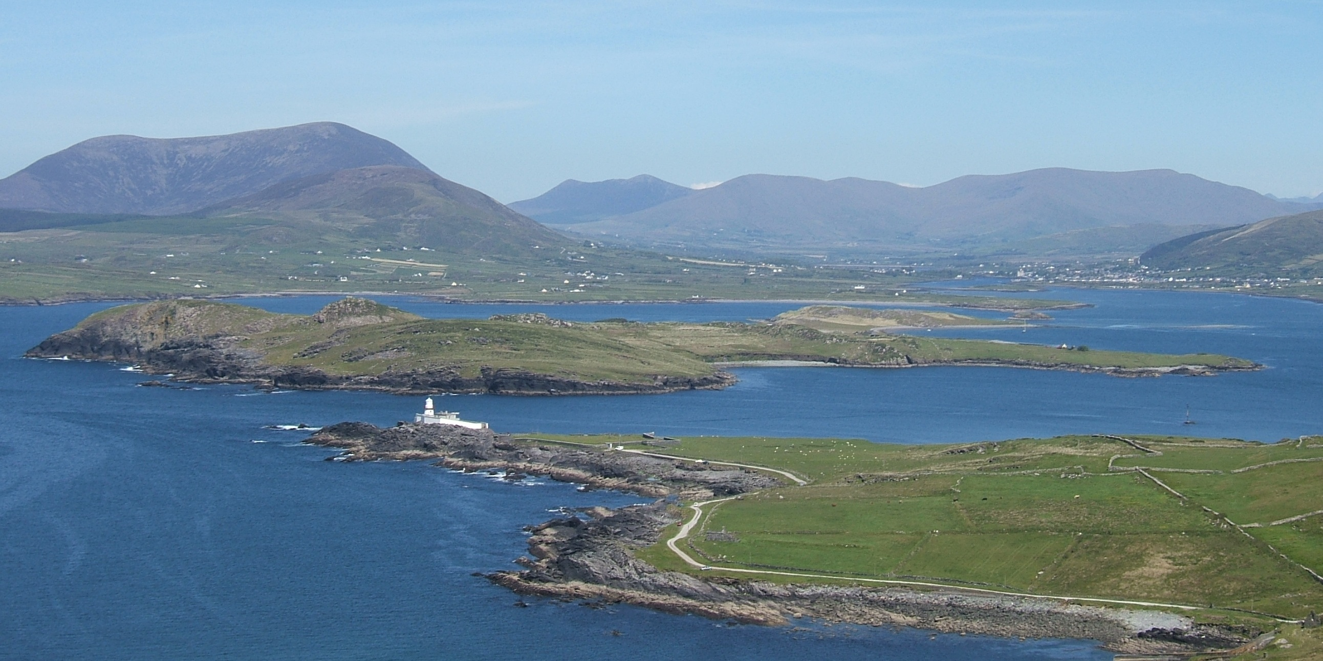 Picture of Beginish Island, showing the entire island taken from the Slate querry on Valentia Harbour, Kerry, Ireland.